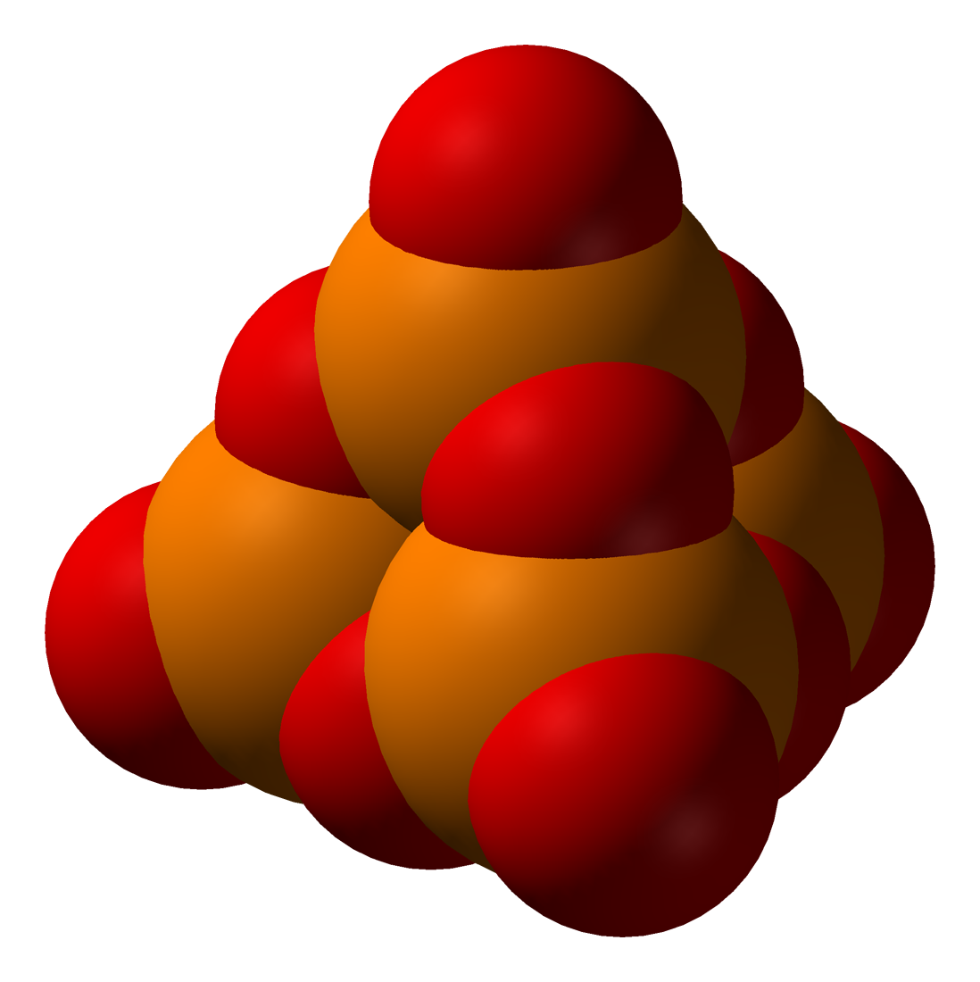 Phosphorus-pentoxide-3D-vdW